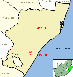 Map of the location of Pietermarizburg